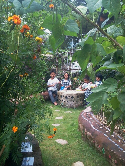 Students enjoy their lunch in the Ecobrick park of Balili Elementary School, Mt. Prov., Philippines